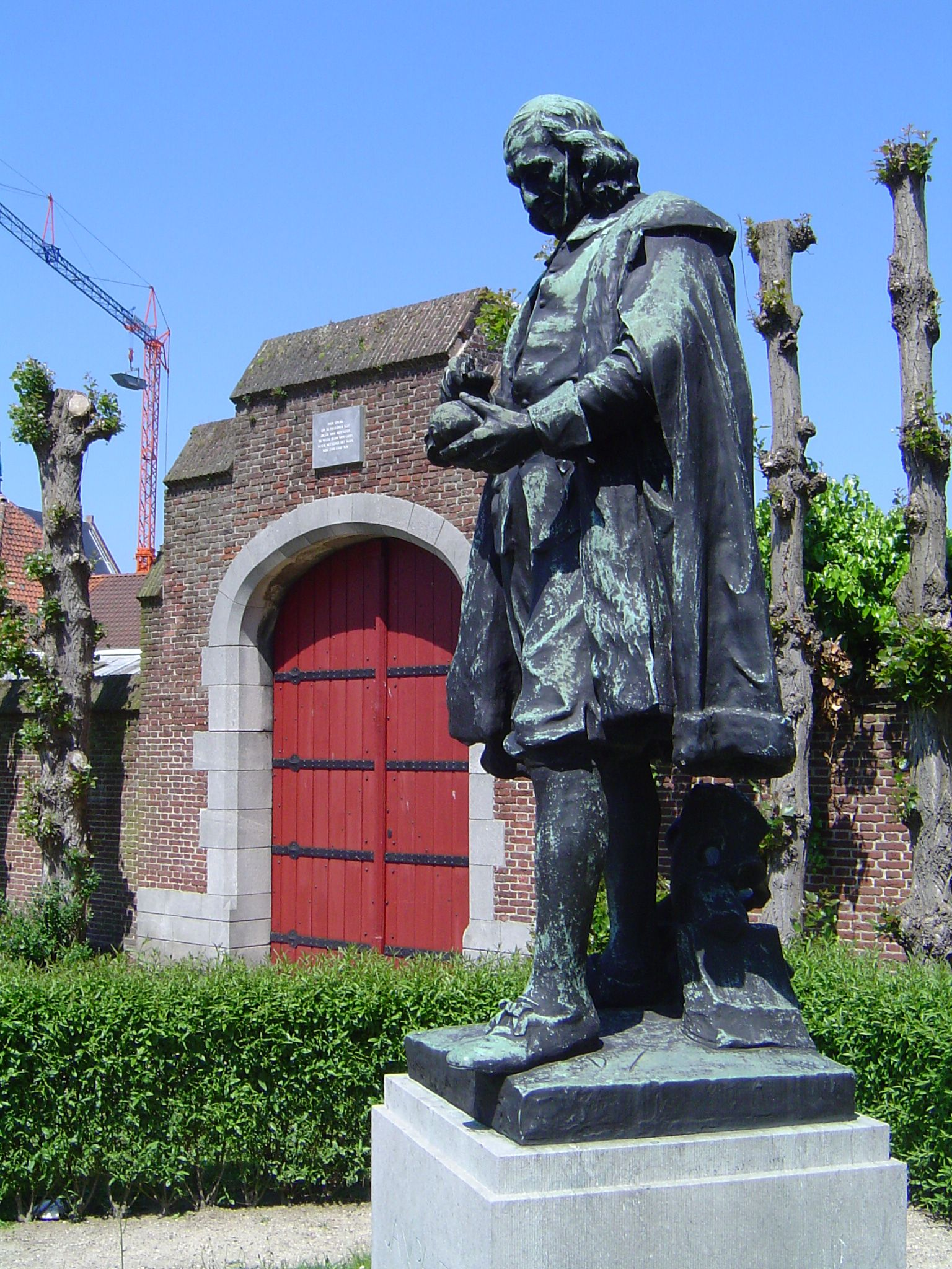 Standbeeld Jan Palfijn te Gent - my own work - created by Paul Hermans